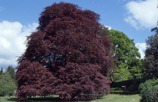 The Autograph Tree (a purple-leaved beech) in the walled garden at Coole Park, Co. Galway. The tree has initials carved into the trunk, including for example George Bernard Shaw.